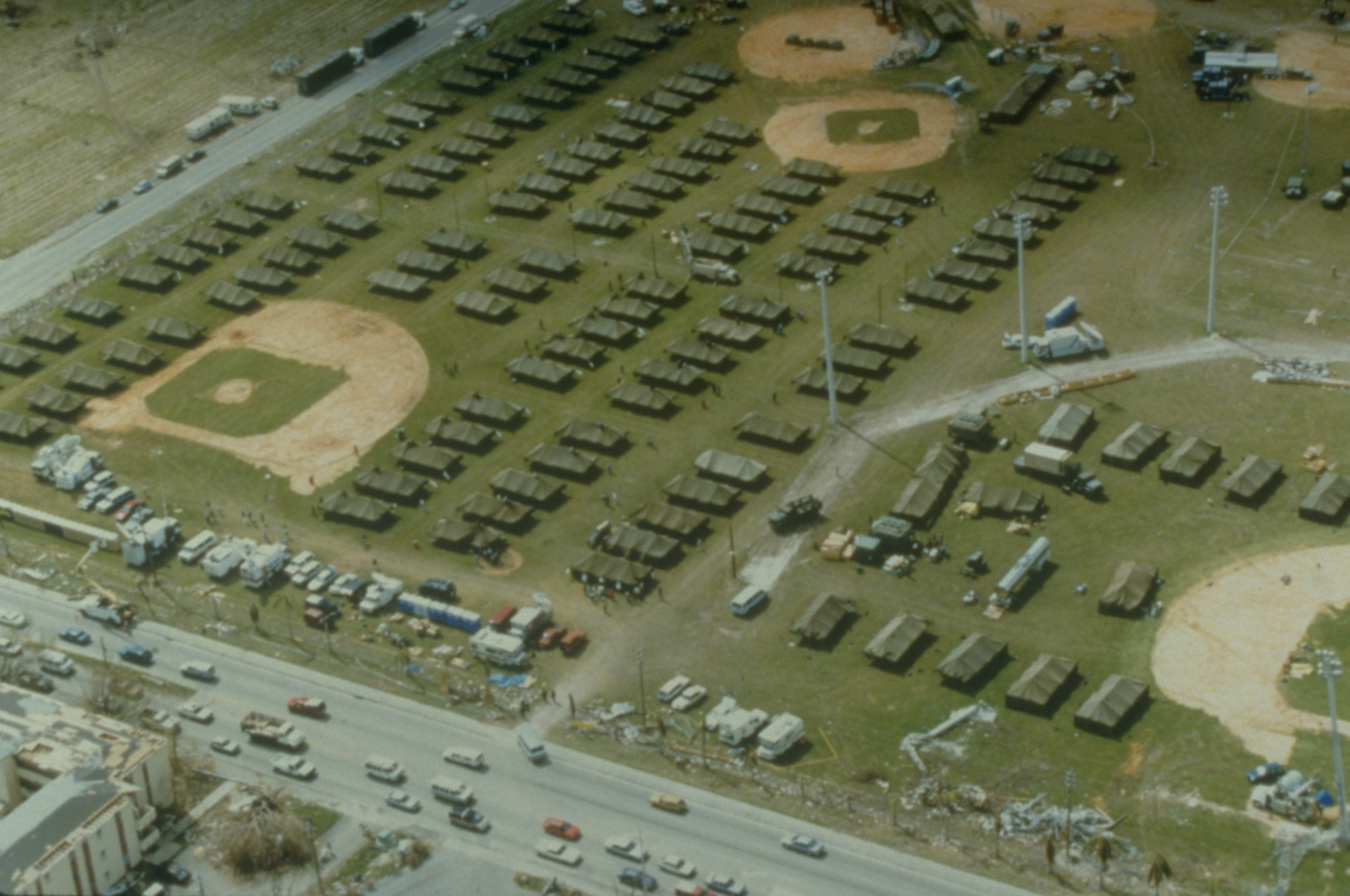 Dade County, FL, August 24, 1992 -- An aerial view showing tents at a temporary housing site. Hurricane Andrew was one of the most destructive hurricanes in America's history. One million people were evacuated and 54 died in this hurricane. FEMA/Bob Epstein